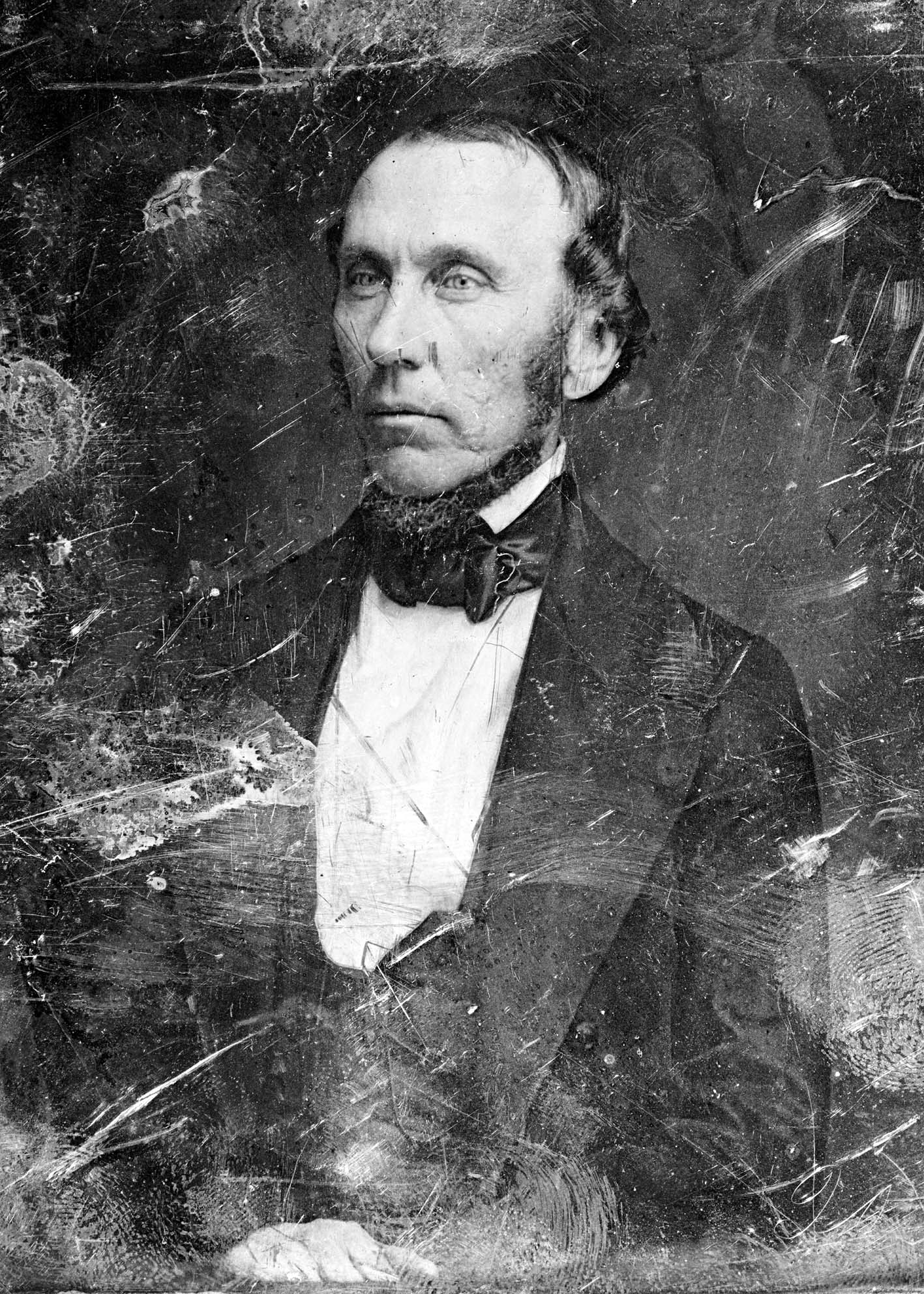 Solomon W. Downs, half-length portrait, three-quarters to the left . Democratic Senator from Louisiana, 1847-1853.